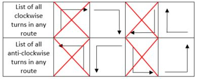 All possible turns in dimension-ordered (X-Y) routing- clockwise and anti-clockwise included.